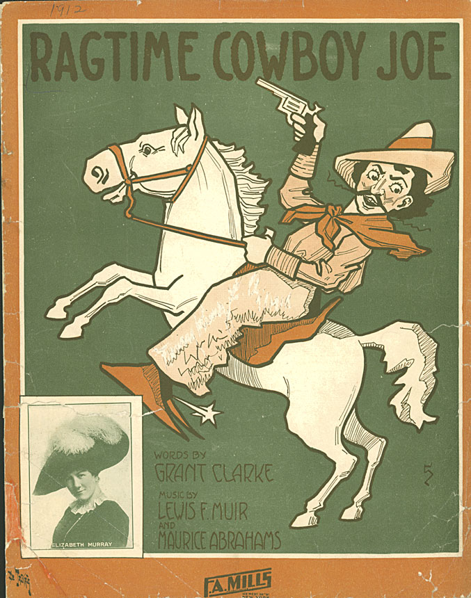 "Ragtime Cowboy Joe" sheet music cover, 1912